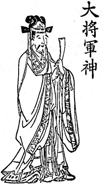 God of Daishogun. 大将軍